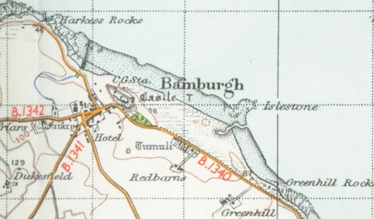 Reproduced from the 1945 OS map